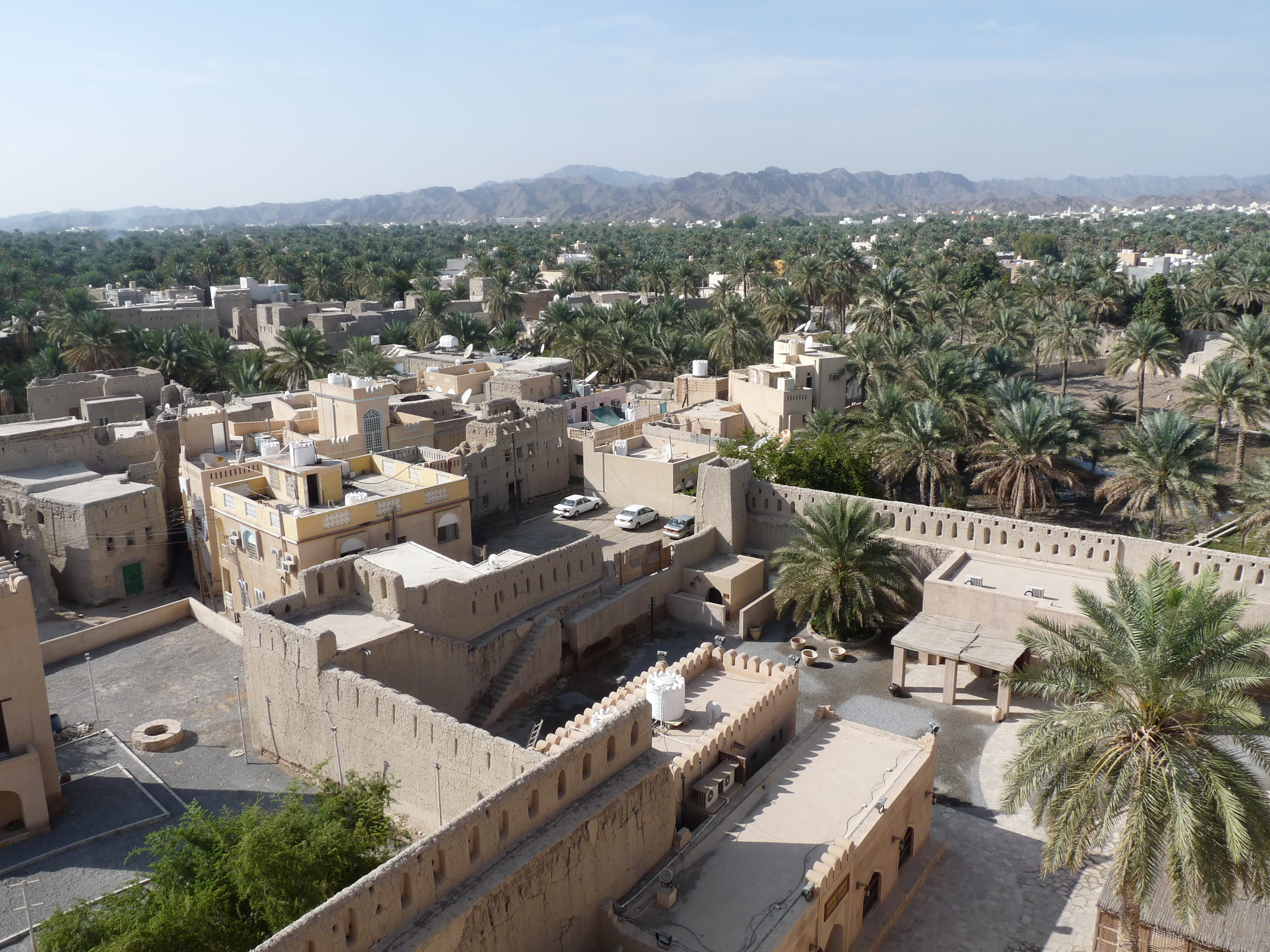 View of Nizwa (Oman) from fort parapet